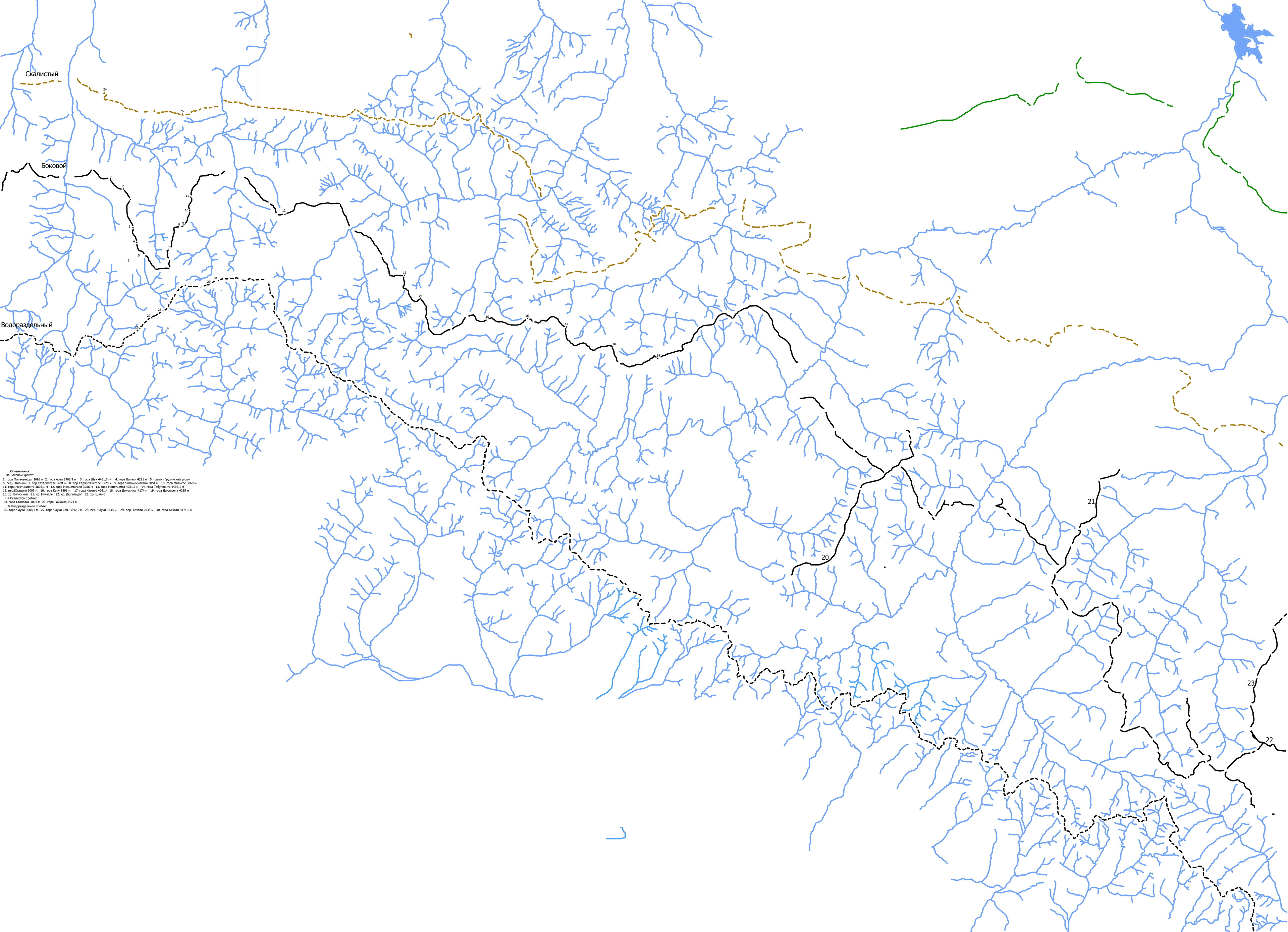 Map of the orography of the Eastern Caucasus with the designation of ranges and rivers. Drawn on the basis of map K-38.